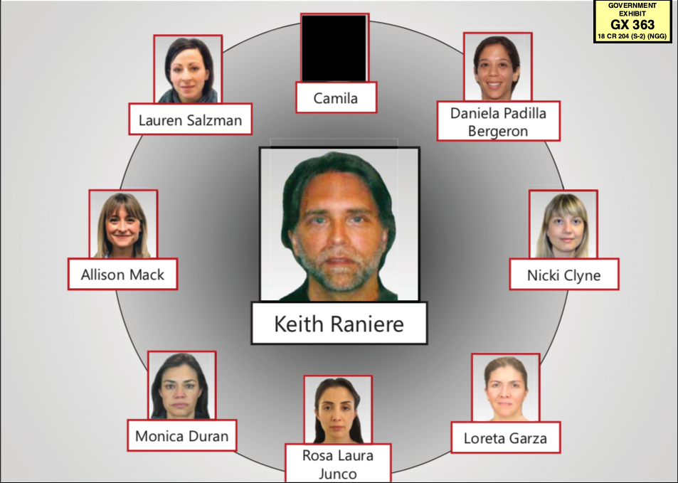 A diagram introduced at trial depicting nxivm founder Keith Raniere in the center surrounded by his eight "first line slaves".